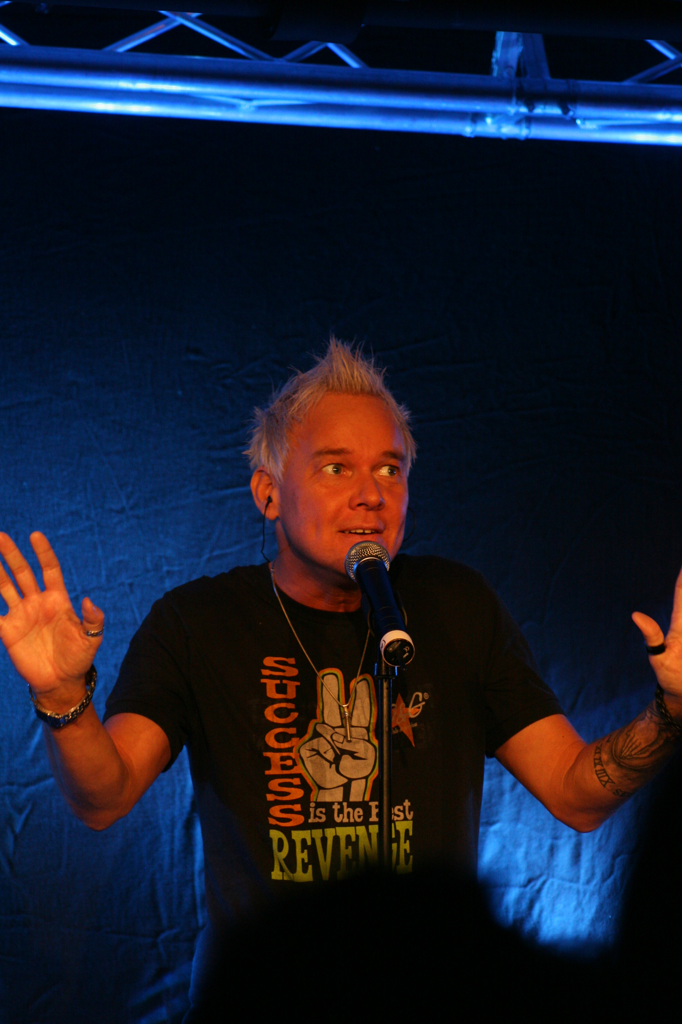 Kristian Valen at IT-galla 2010